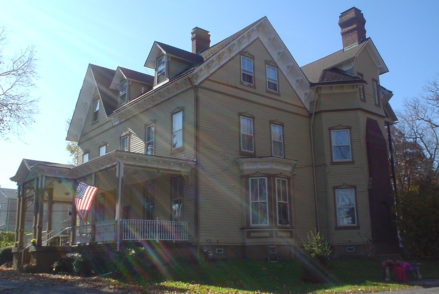 In Upland, PA, near Chester. Mansion of John Crozer II. On NRHP.